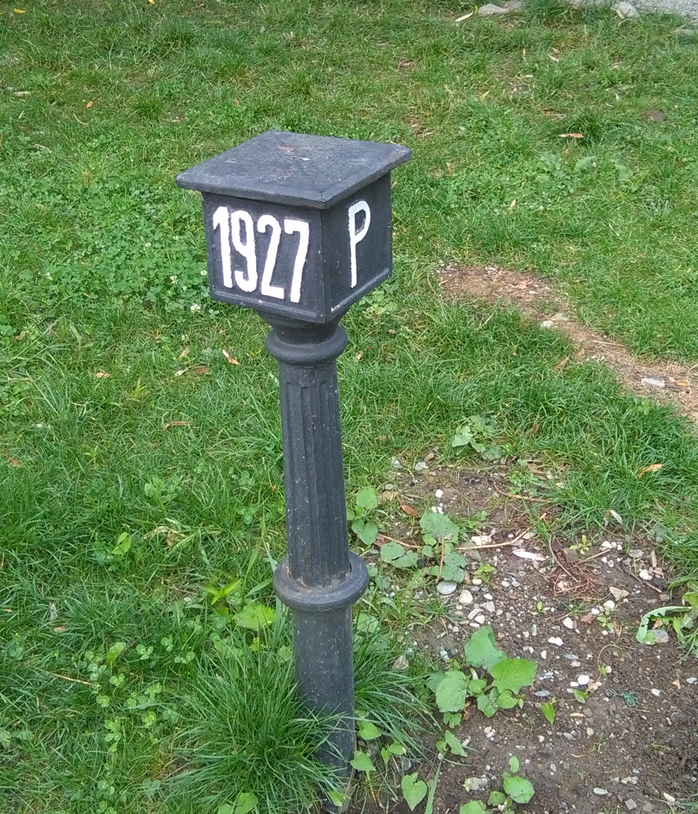 Former Polish-Romanian border post, currently at Vișeu de Sus train station in Maramureș Mountains.